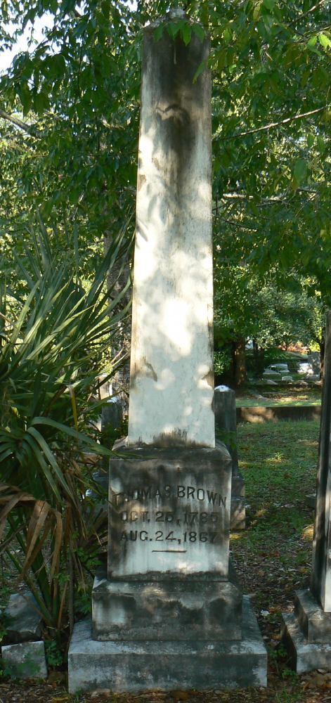 Grave of Florida governor Thomas Brown, in Tallahassee FL, USA